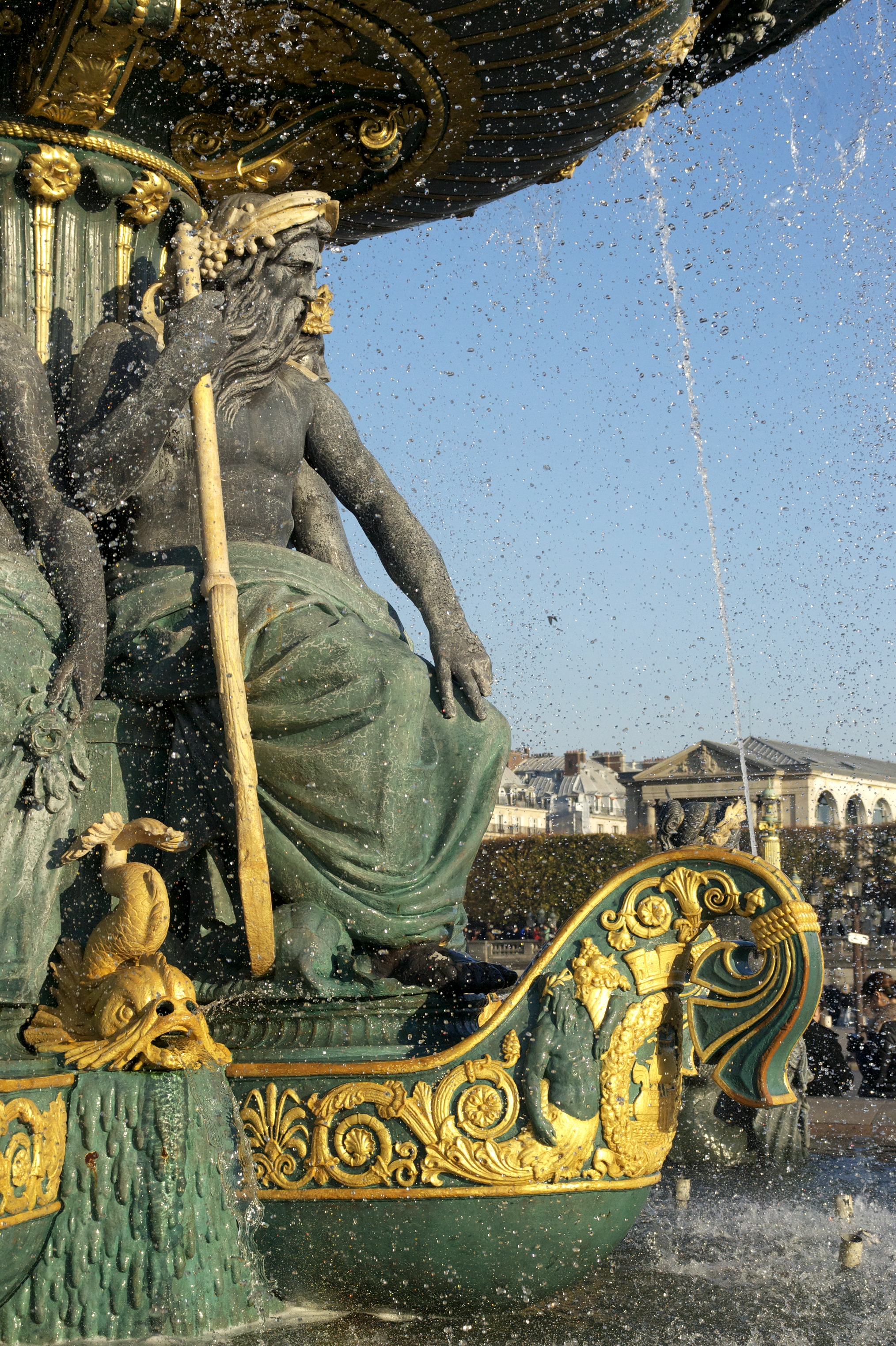 Fountain of the Rivers, Place de la Concorde, Paris. Detail. Le Rhône, by Gechter